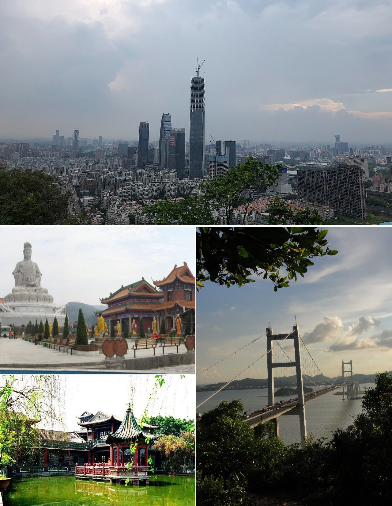 Montage of various Dongguan images